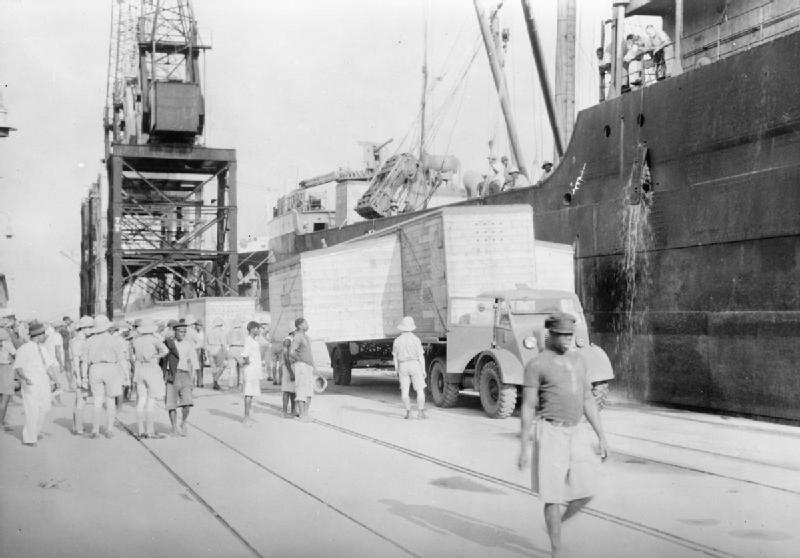 Royal Air Force- East Africa Command, 1940-1945. Crated aircraft being unloaded from a freighter in Takoradi harbour, Gold Coast, for transport to the nearby airfield, where they would be erected and flown to Egypt along the West African Reinforcement Route.